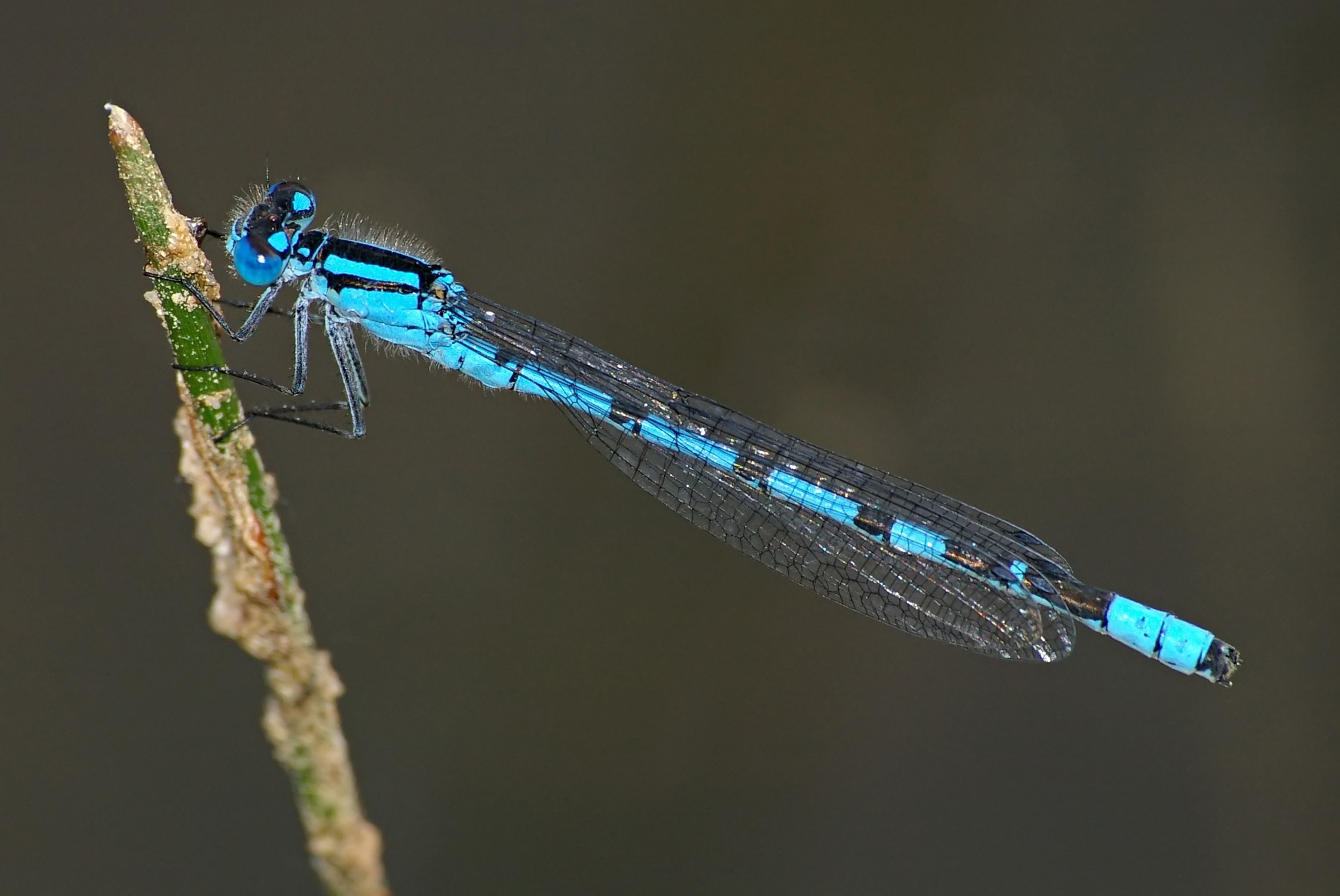 A Common Blue Damselfly (Enallagma cyathigerum); male specimen sitting on a stalk.